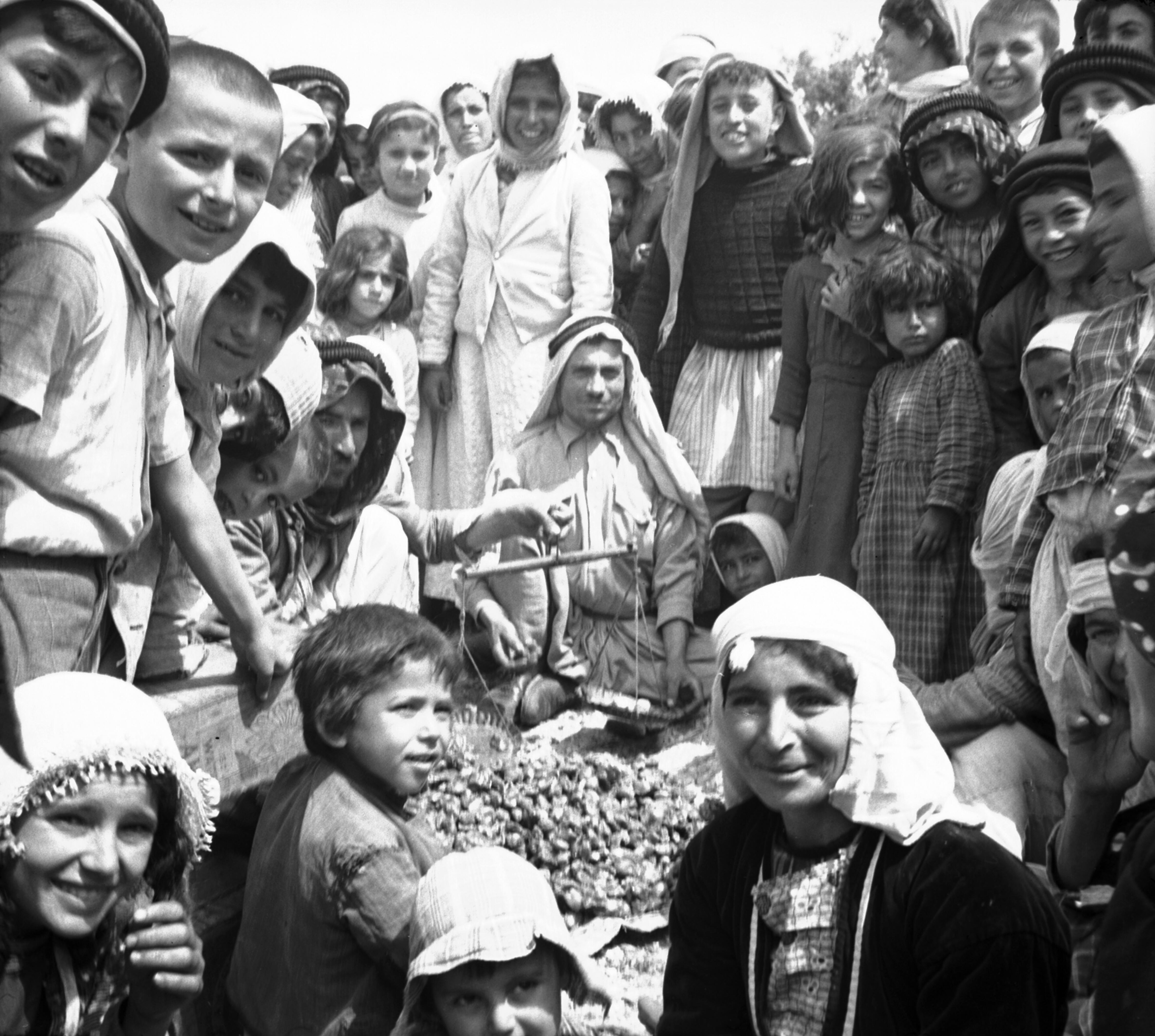 Alawites celebrating a festival in Banyas, Syria.